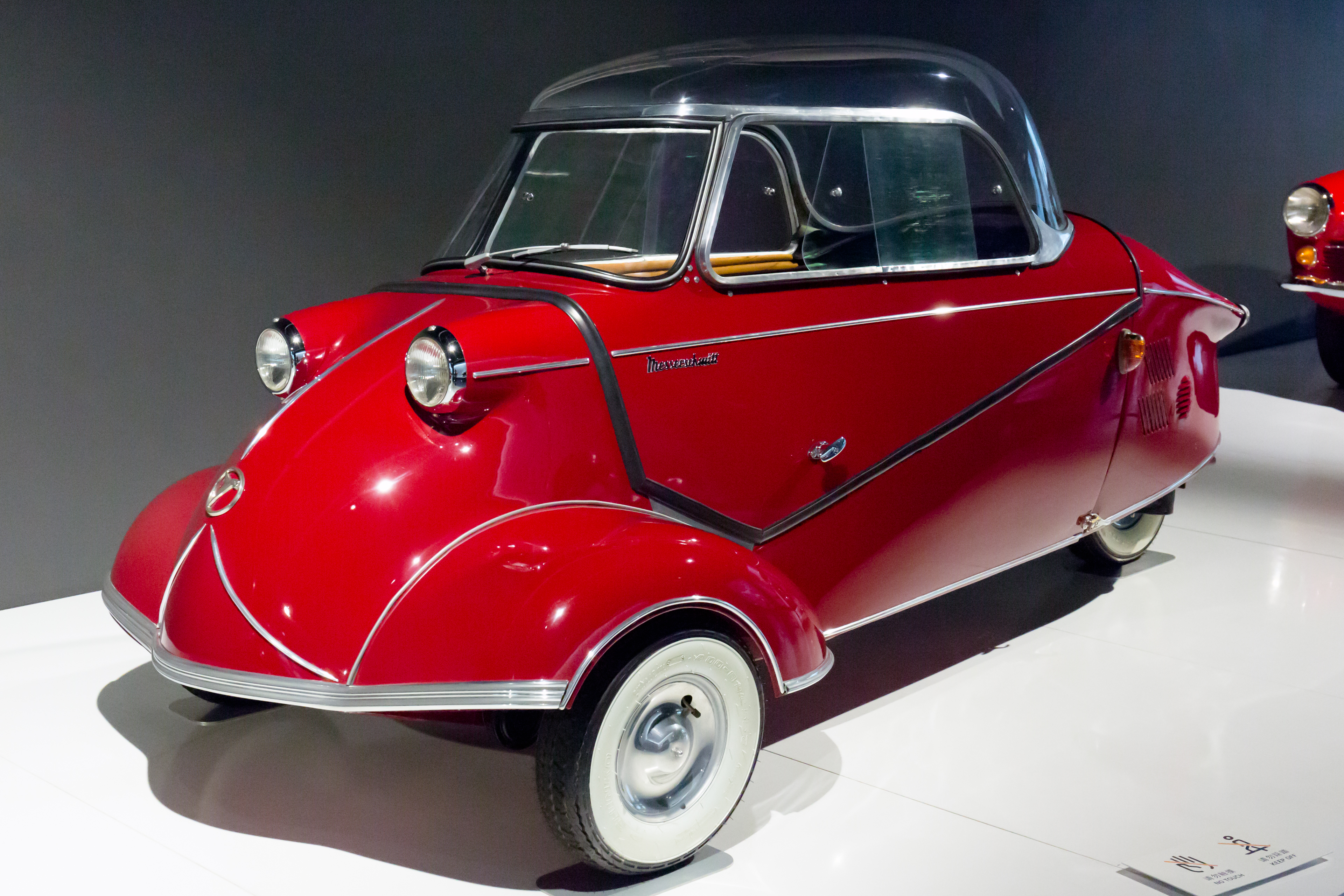 1958 Messerschmitt KR200